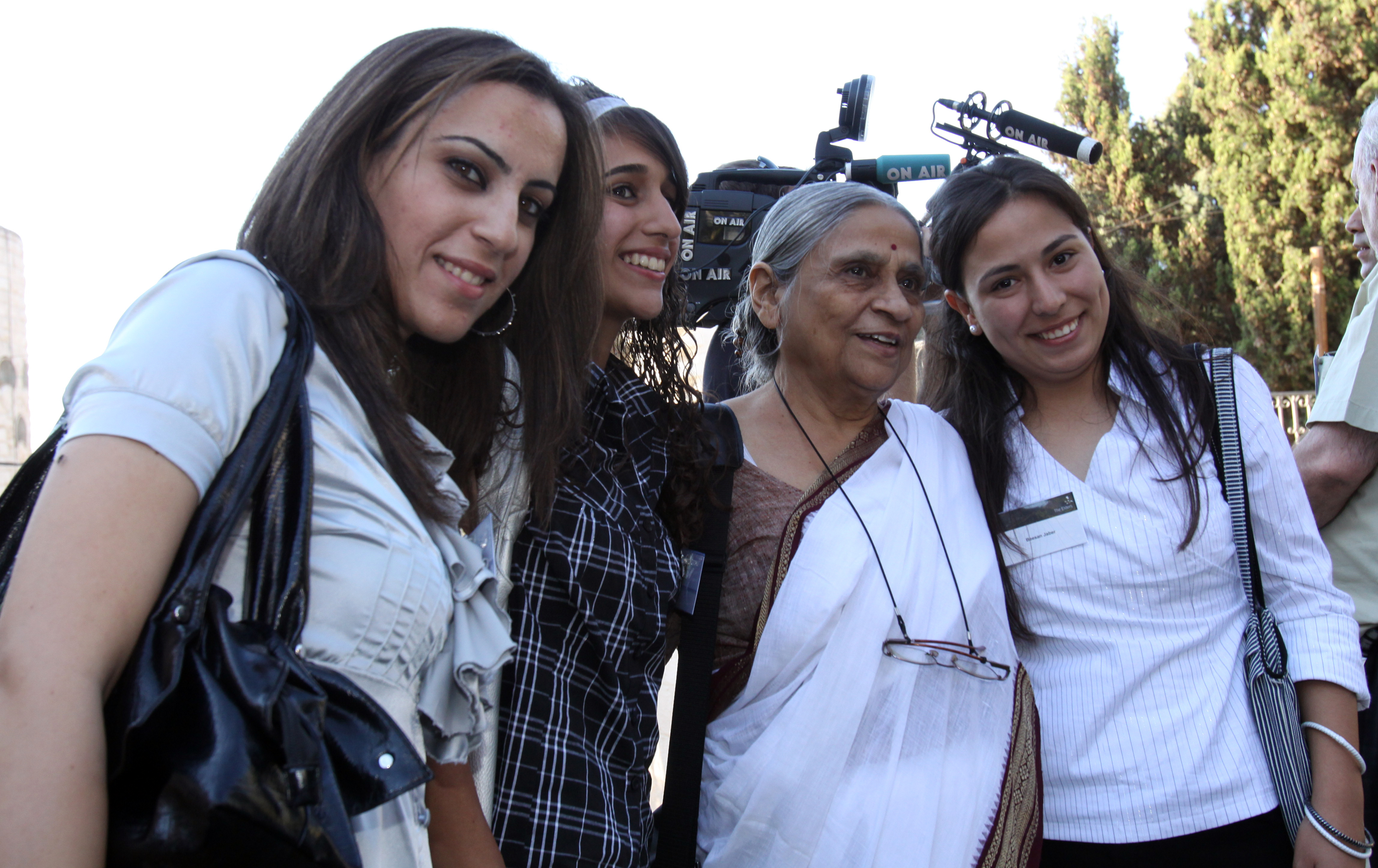 Ela Bhatt: “Women are the key to building peace. Women’s participation is an integral part of any peace process.” Photo credit: Haim Zach